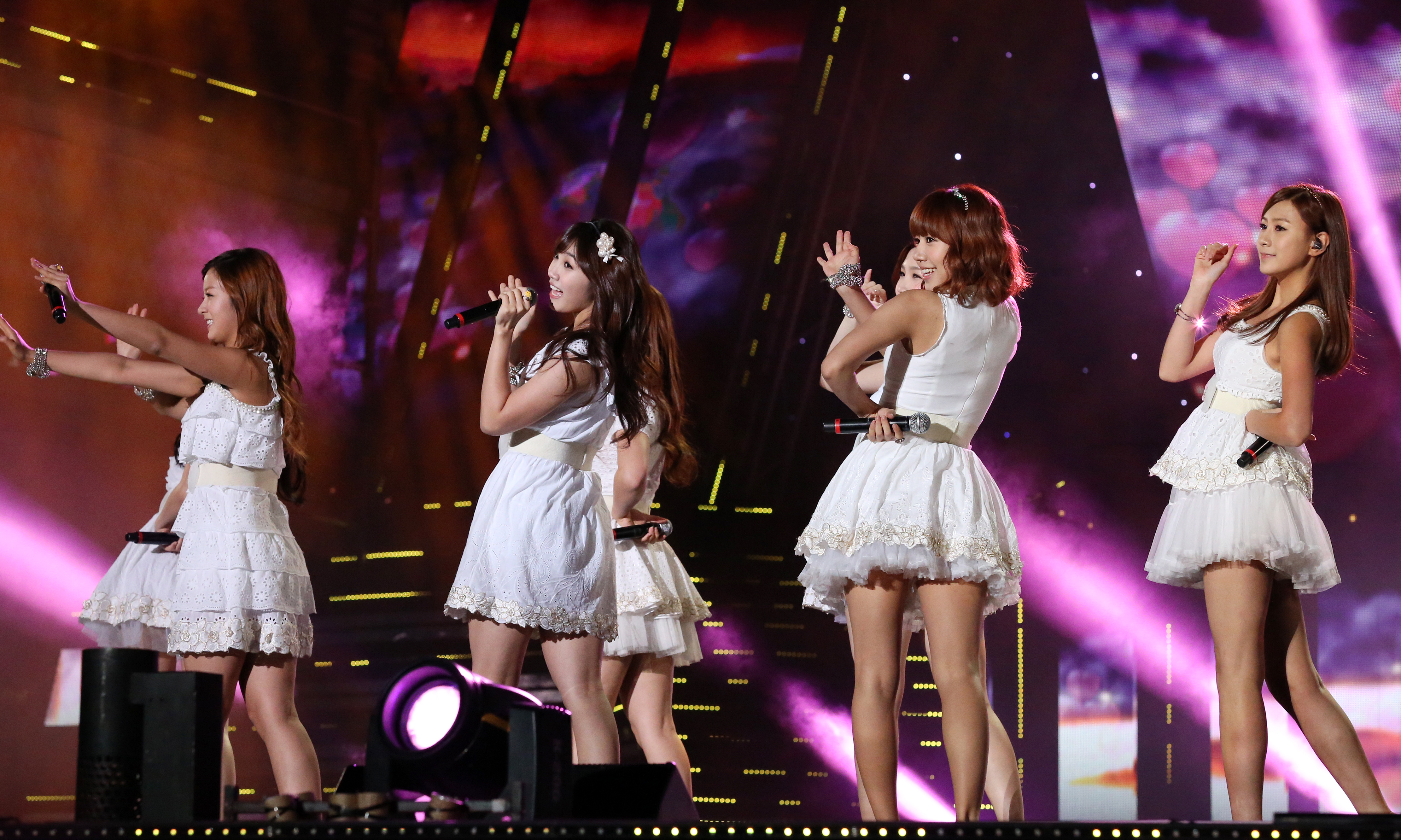 2012 K-POP World Festival. Special Performance by 'A Pink'. Left to right: Bomi, Eunji, Namjoo and Hayoung.